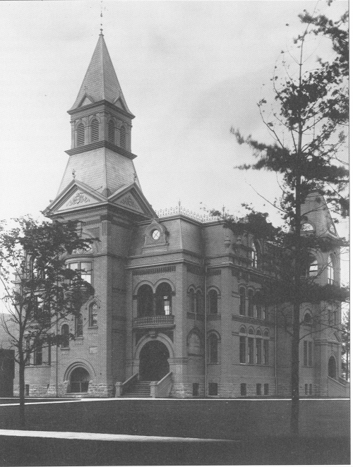 Photograph of original Parkdale High School before demolition in 1928.